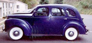 1950 Canadian Ford Prefect Automobile (Delete all revisions of this file) (cur) 09:45, 4 December 2003 . . Dodger (Talk) . . 300x141 (10142 bytes) (1950 Canadian Ford Prefect Automobile)